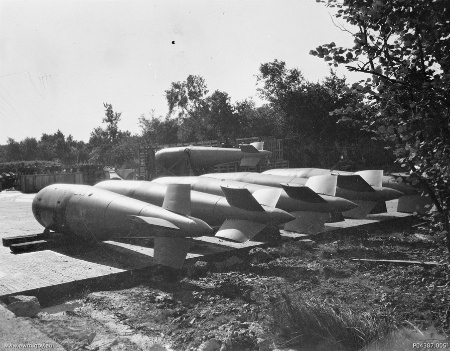 Five Tallboy bombs in a bomb dump at Bardney, Lincolnshire prior to being loaded on No. 9 Squadron RAF aircraft.